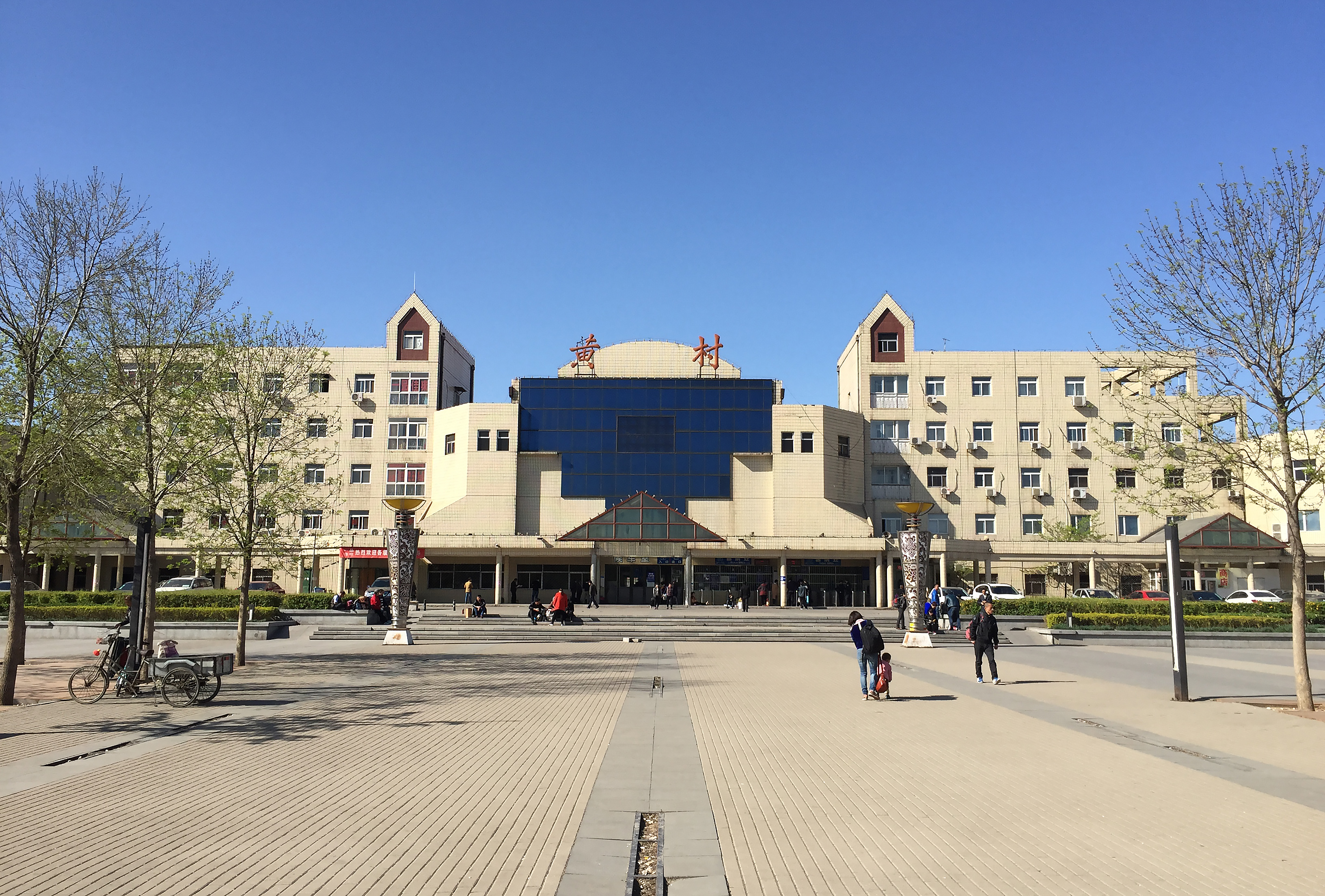 A fine sunny day...but catkins arrive.